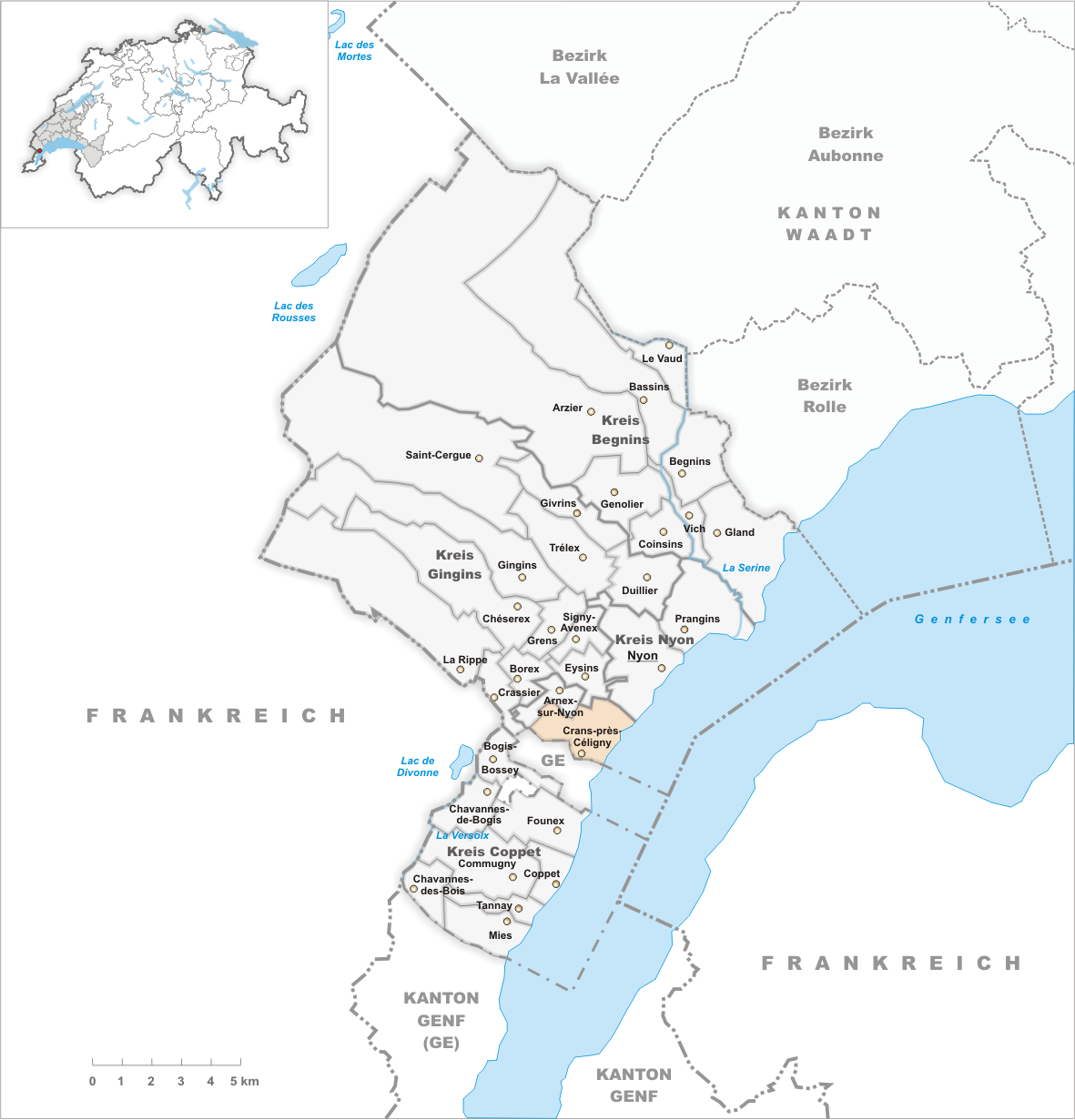 Municipality Crans-près-Céligny